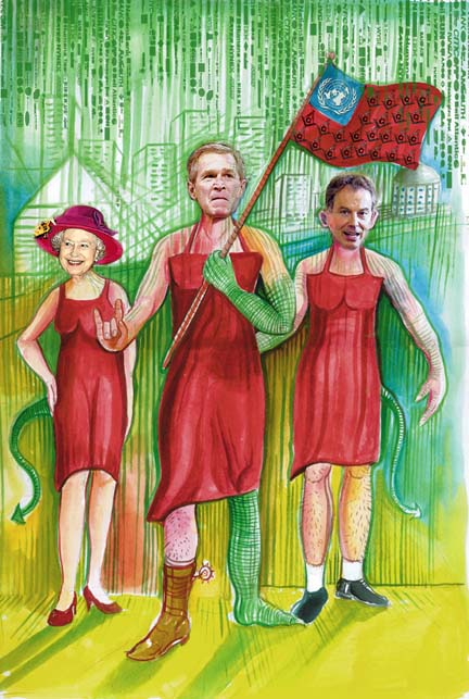 "The Red Dress Programmes" by Neil Hague, an illustration in David Icke's Infinite Love is the Only Truth (2005). The cutline on p. 83 reads: "Figure 52: The 'Red Dress' bloodlines of the Illuminati that dominate royalty, politics, banking, business, and media. They obsessively interbreed to stop the software program being rewritten by the infusion of self-aware consciousness."